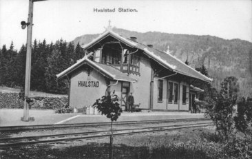 Original Hvalstad Station in Bærum, Norway, on the Drammen Line. This station building was demolished in 1960.